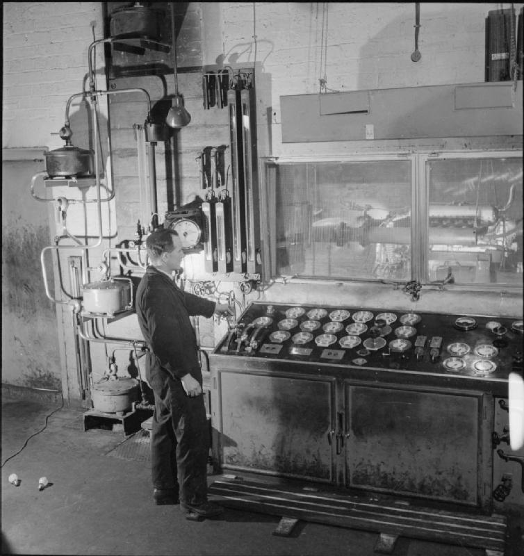 A Merlin Is Made- the Production of Merlin Engines at a Rolls Royce Factory, 1942 An engineer stands at his Control Panel in the Test Bed of this aircraft engine factory, somewhere in Britain. Through the window can be seen an engine which is being tested. Many complex tests are carried out, including coolant temperatures and suction, oil temperatures and pressure, petrol pressure and consumption and boost pressure from the supercharger to the engine.